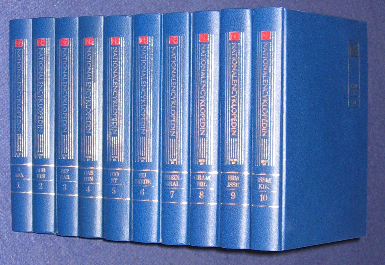 Book covers, volumes 1-10 of 20. "Nationalencyklopedin", a Swedish encyclopedia from 1989-1996.